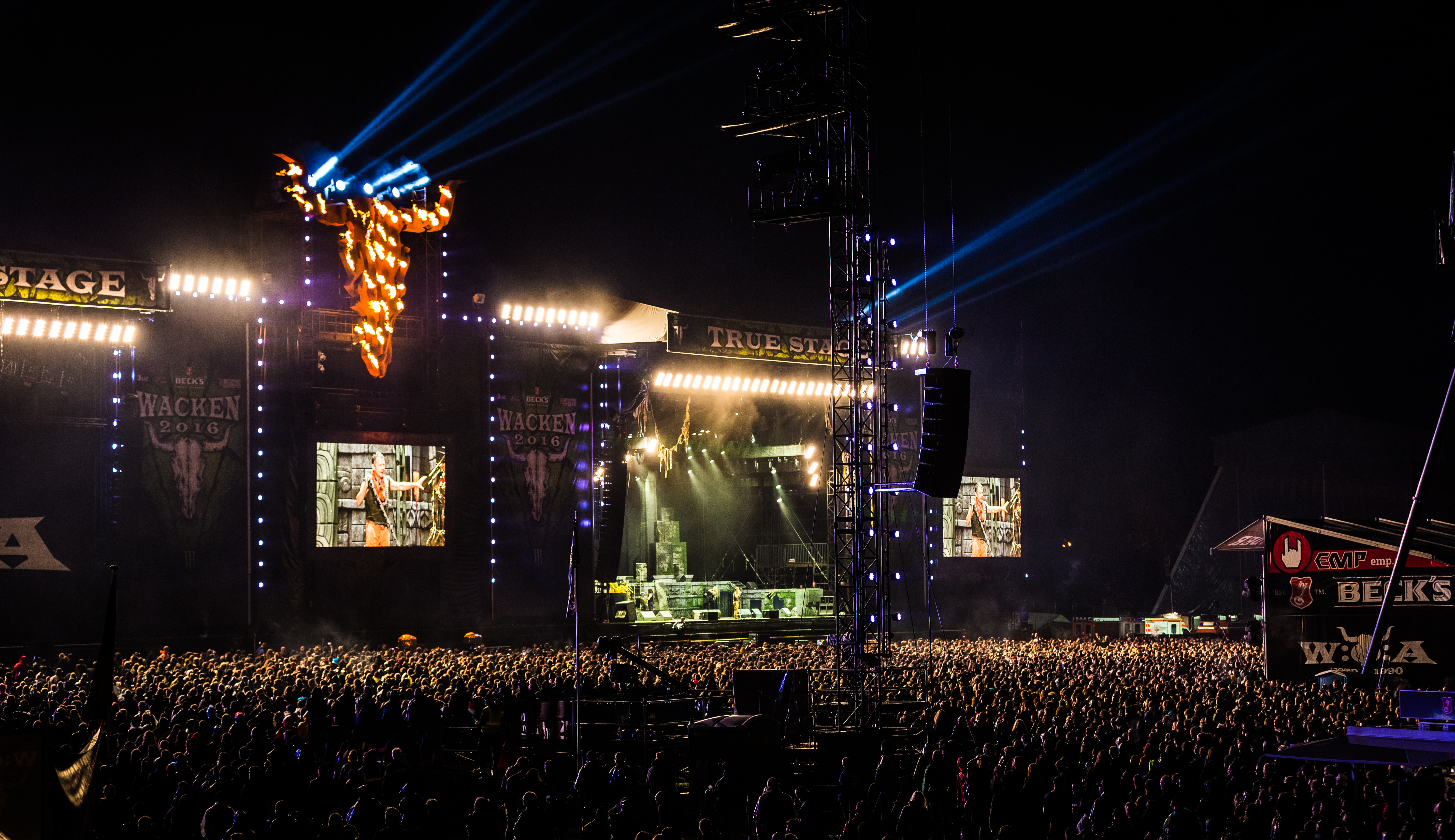 Iron Maiden - Wacken Open Air 2016